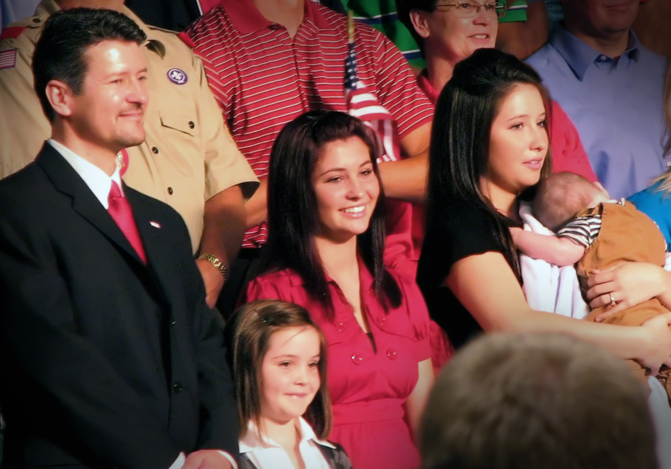 Sarah Palin's family at the announcement of Sarah Palin as the VP candidate